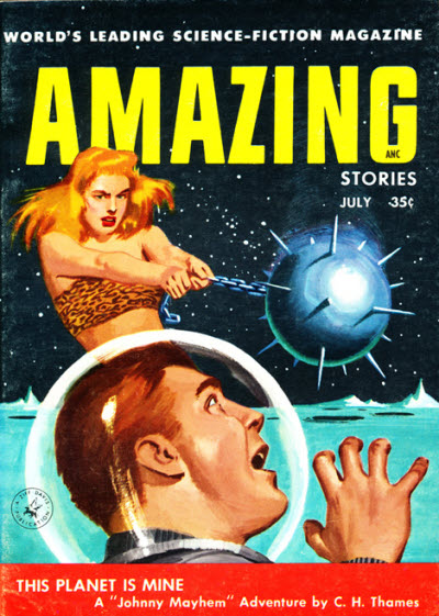 Cover of Amazing Stories, July 1956